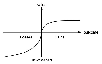 Value function in Prospect Theory, drawing by Marc Oliver Rieger.